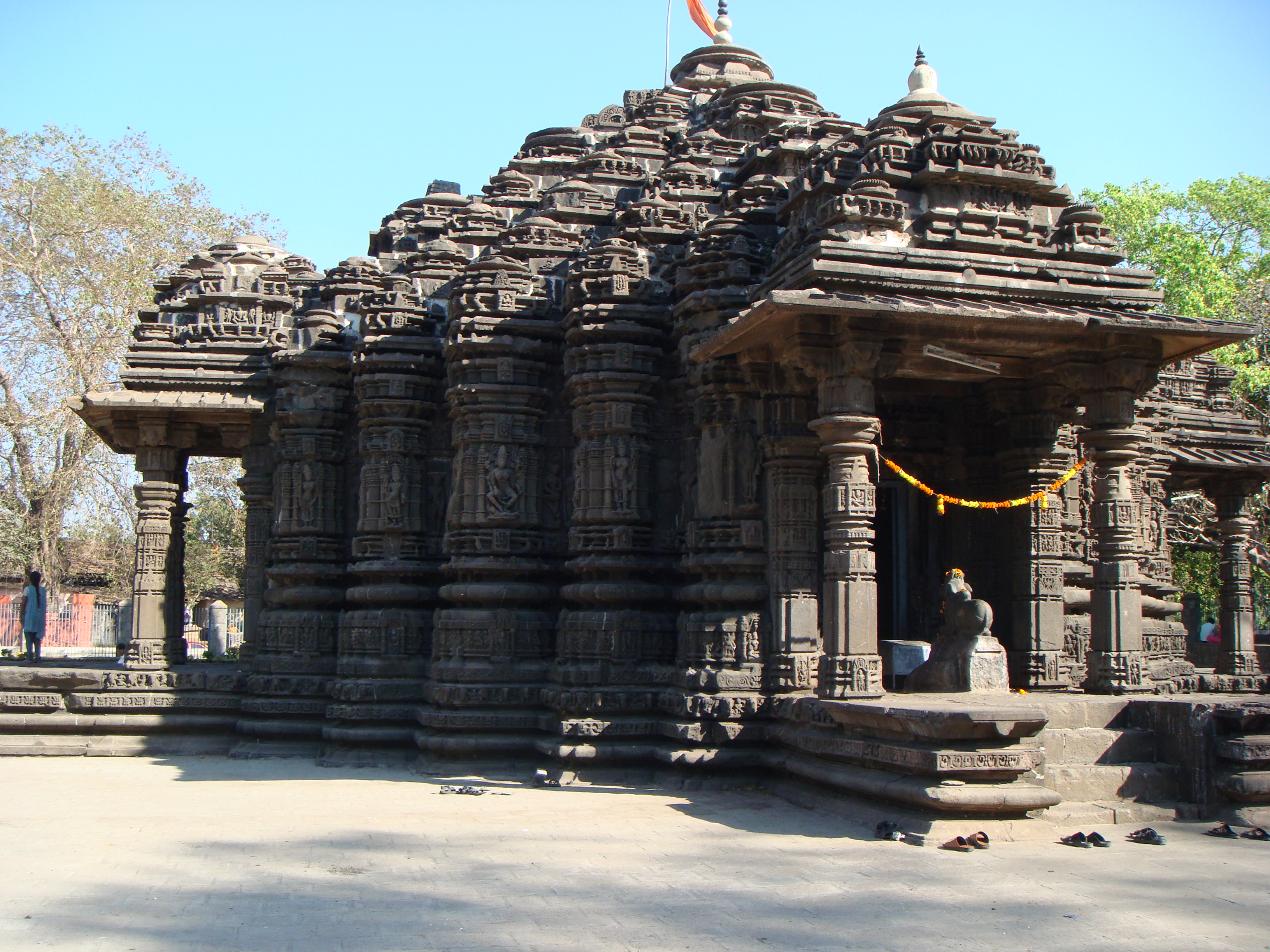 Temple of Ambarnath